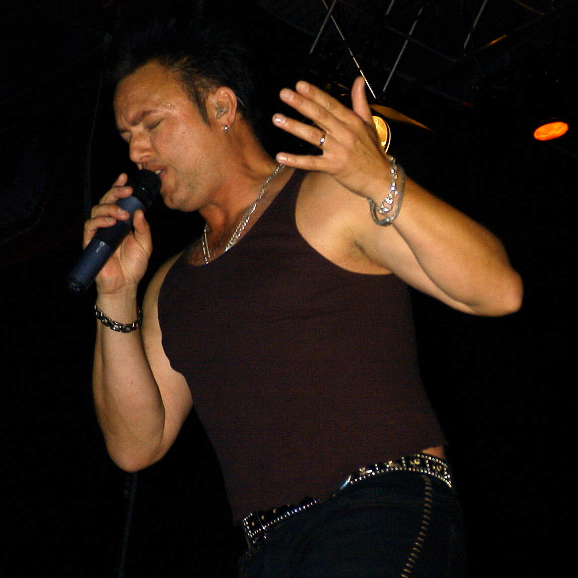 Geoff Tate performing at „Polo Festival“ in Düsseldorf, Germany. „Tribe Tour“ of Queensrÿche, 2004. (Part of the original photo; photographed by BlackIceNRW.)